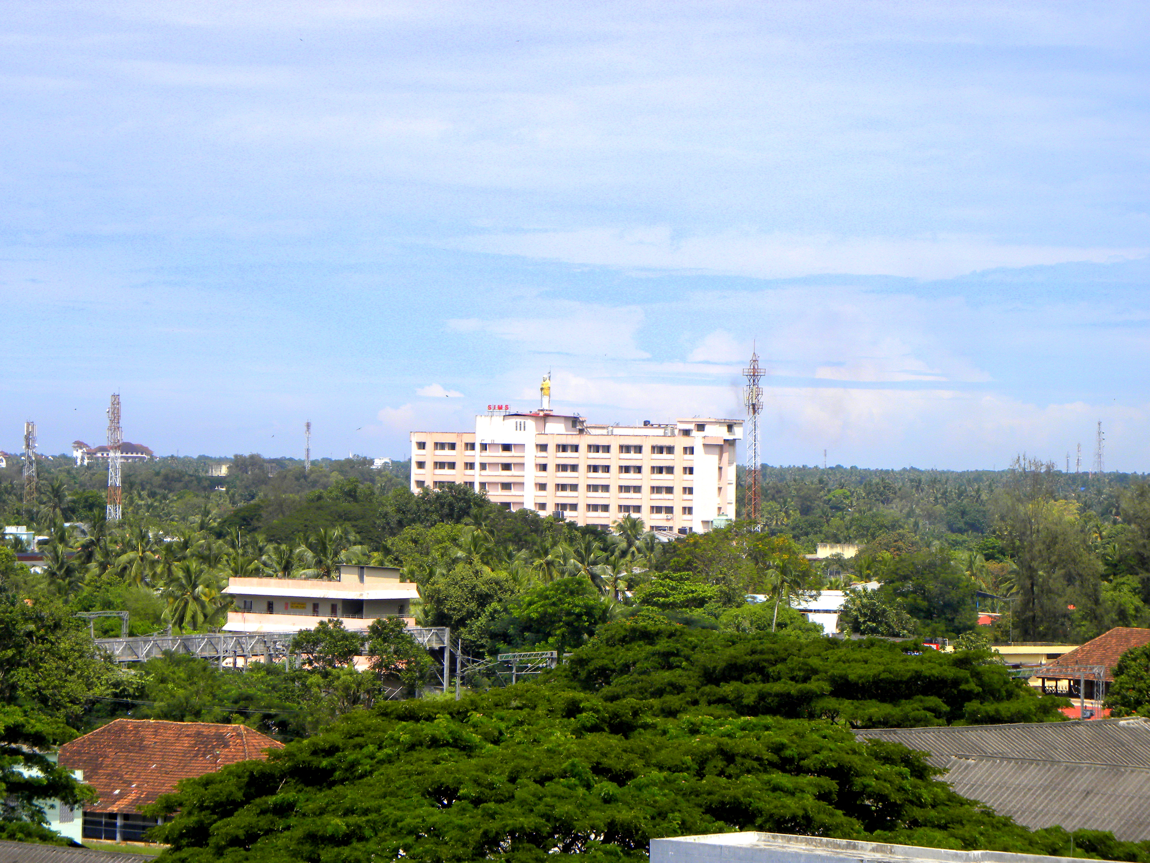 Sankar's Institute of Medical Science, Kollam